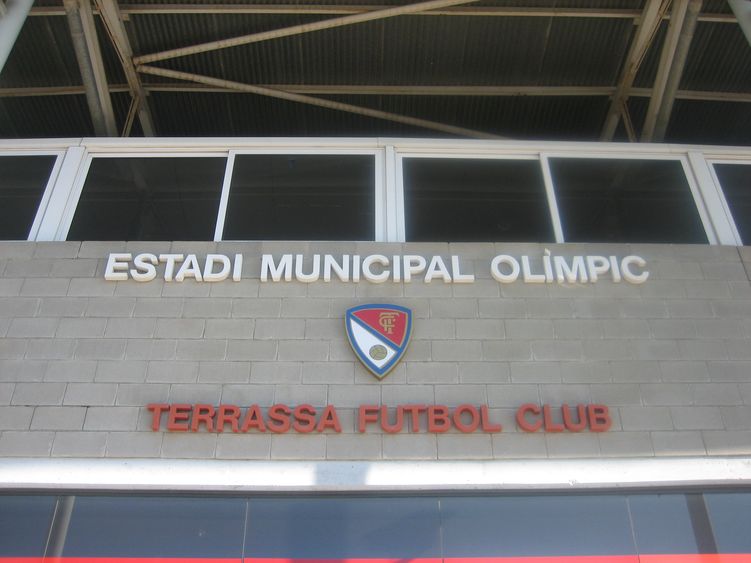 Estadi Municipal Olimpic, Terrassa Futbol Club. Taken while on a visit to the stadium for a league match.